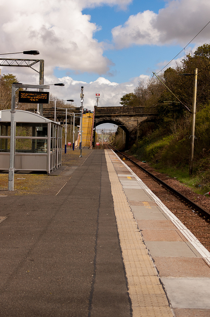 King's Park railway station, Glasgow, April 2012